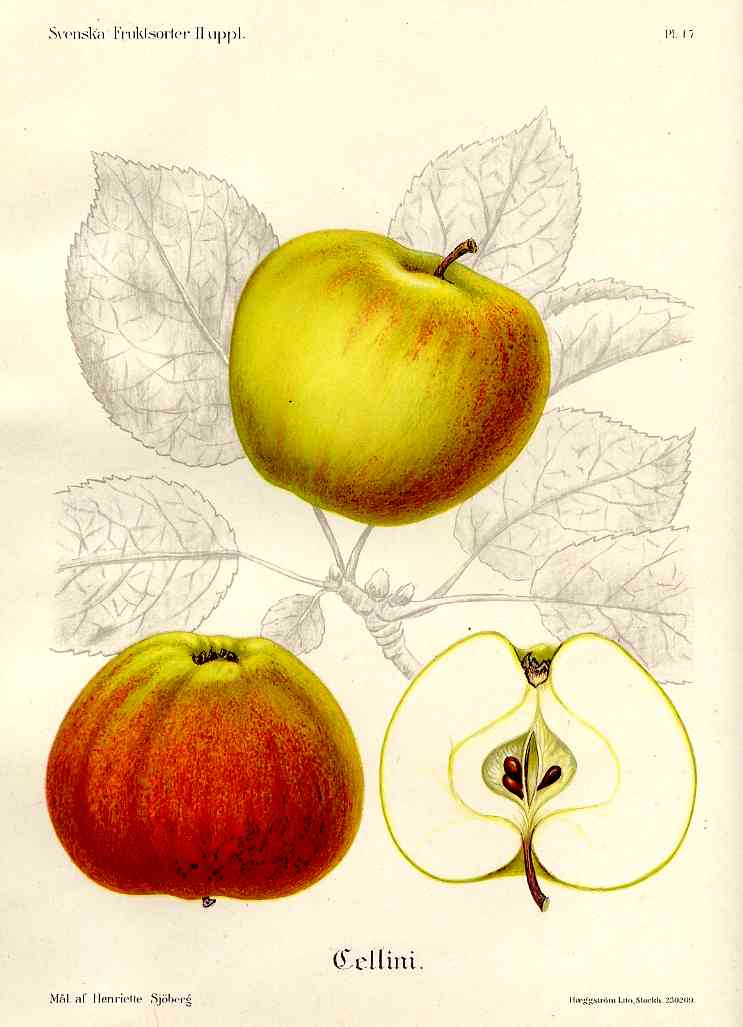 Apples cellini (color chromolithograph by Henriette Sjöberg, circa 1910)